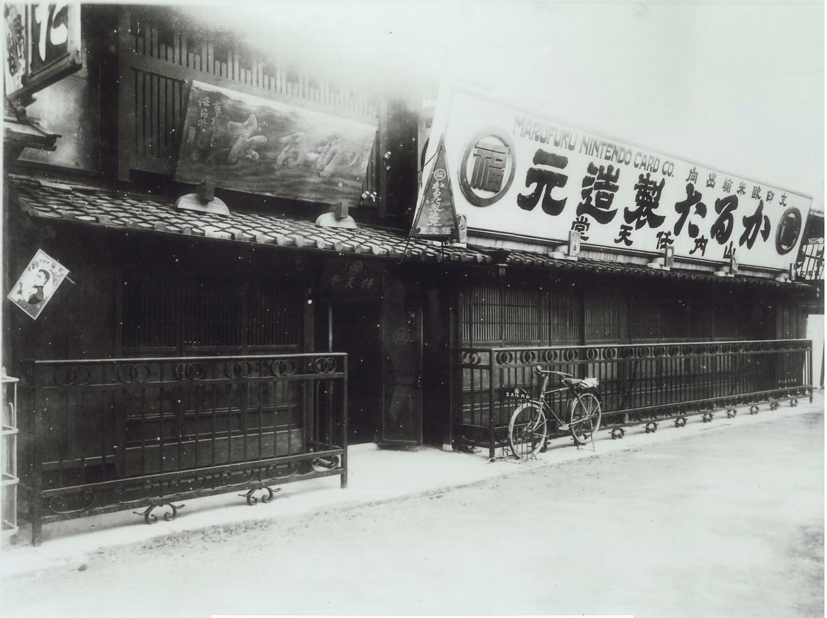 A photograph of Nintendo's first headquarters in Kyoto, Japan in 1889